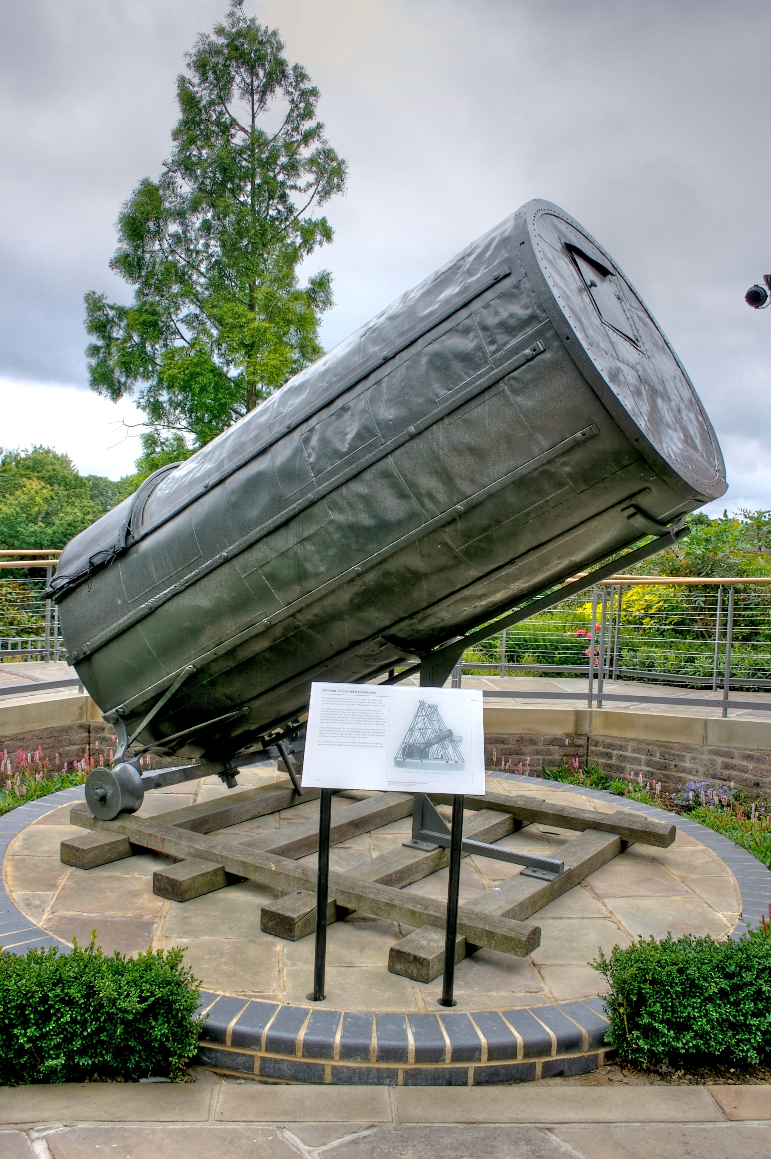 The remaining section of William Herschel's 40-foot telescope